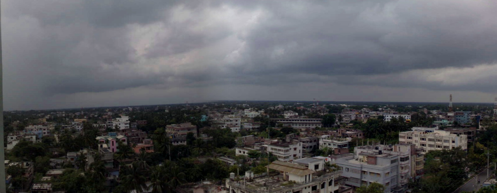 Birds eye view of Rajshahi city